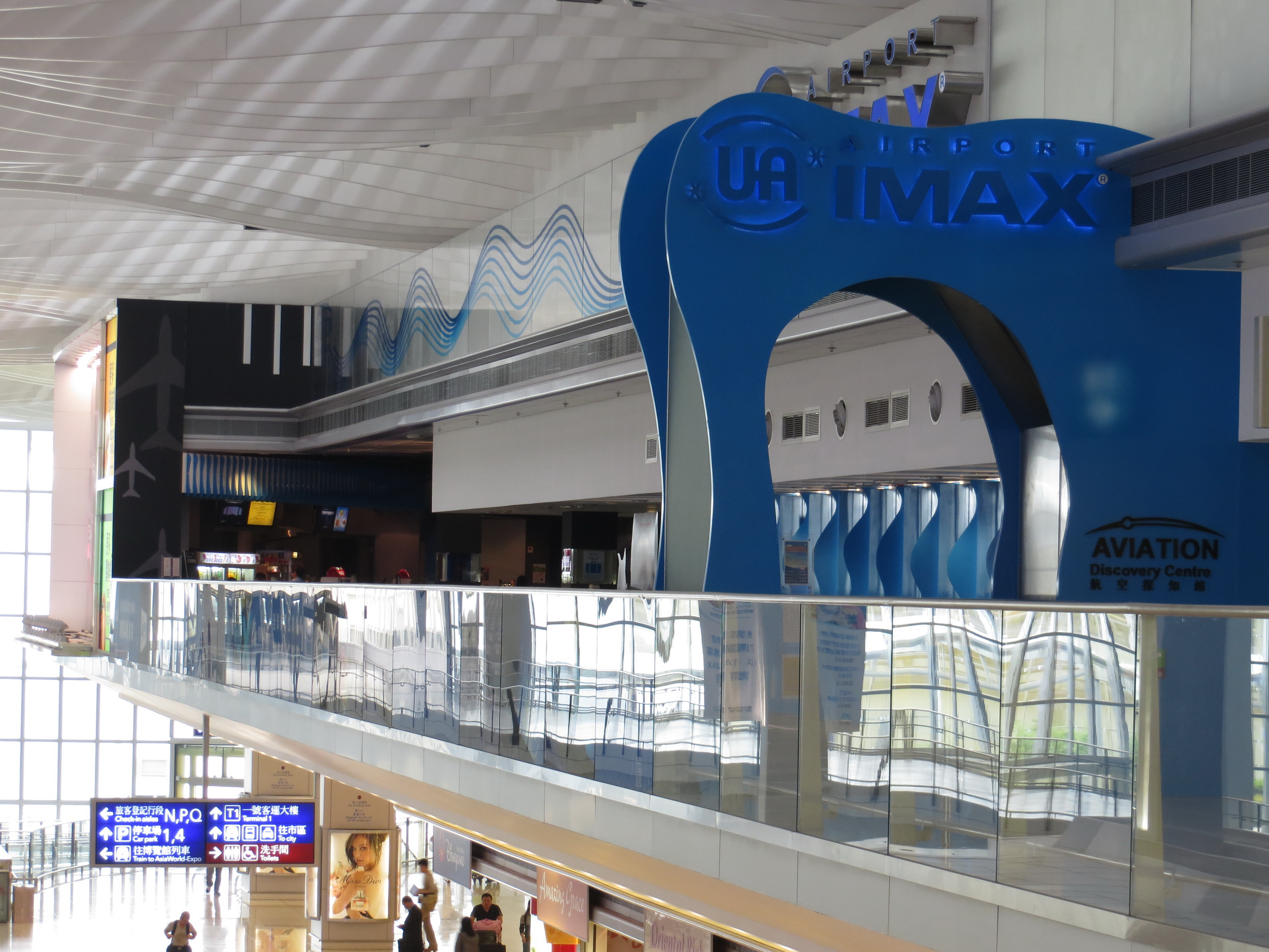 UA IMAX@Airport (6P059, Level 6, Terminal 2, 1 Sky Plaza Road, Chek Lap Kok Airport)